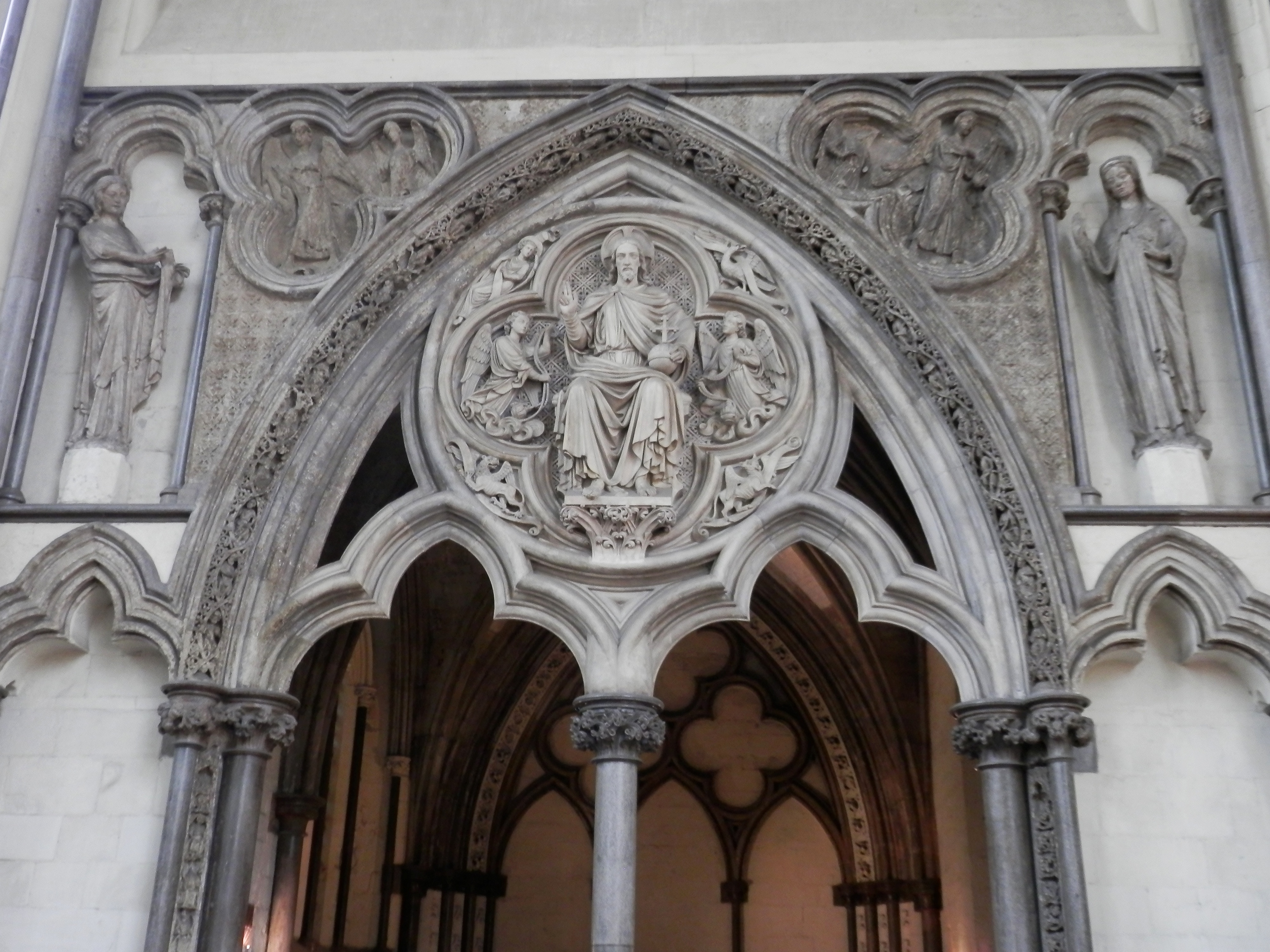 Westminster Abbey (The Collegiate Church of St Peter, Westminster, London)